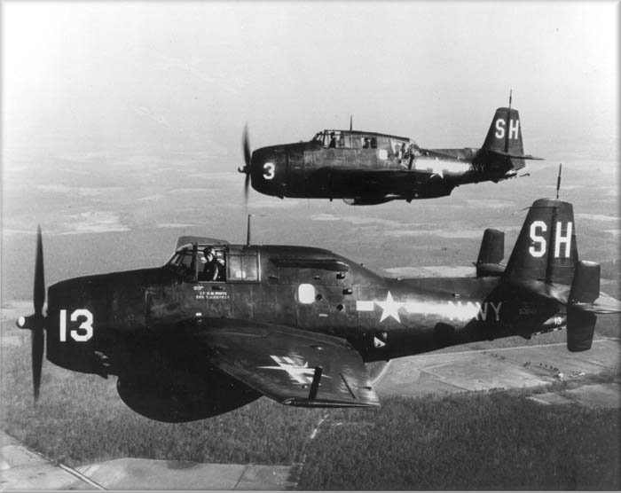 A U.S. Navy Grumman TBM-3W2 Avenger "hunter" aircraft (tail code "SH-13", foreground) and a TBM-3S2 "killer" aircraft ("SH-3") from Anti-Submarine Squadron 26 (VS-26) fly in formation during a routine training flight, circa in 1953.